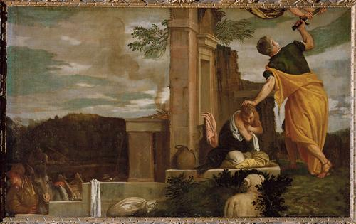 "The Sacrifice of Isaac" by Paolo Veronese; Kunsthistorisches Museum, Vienna